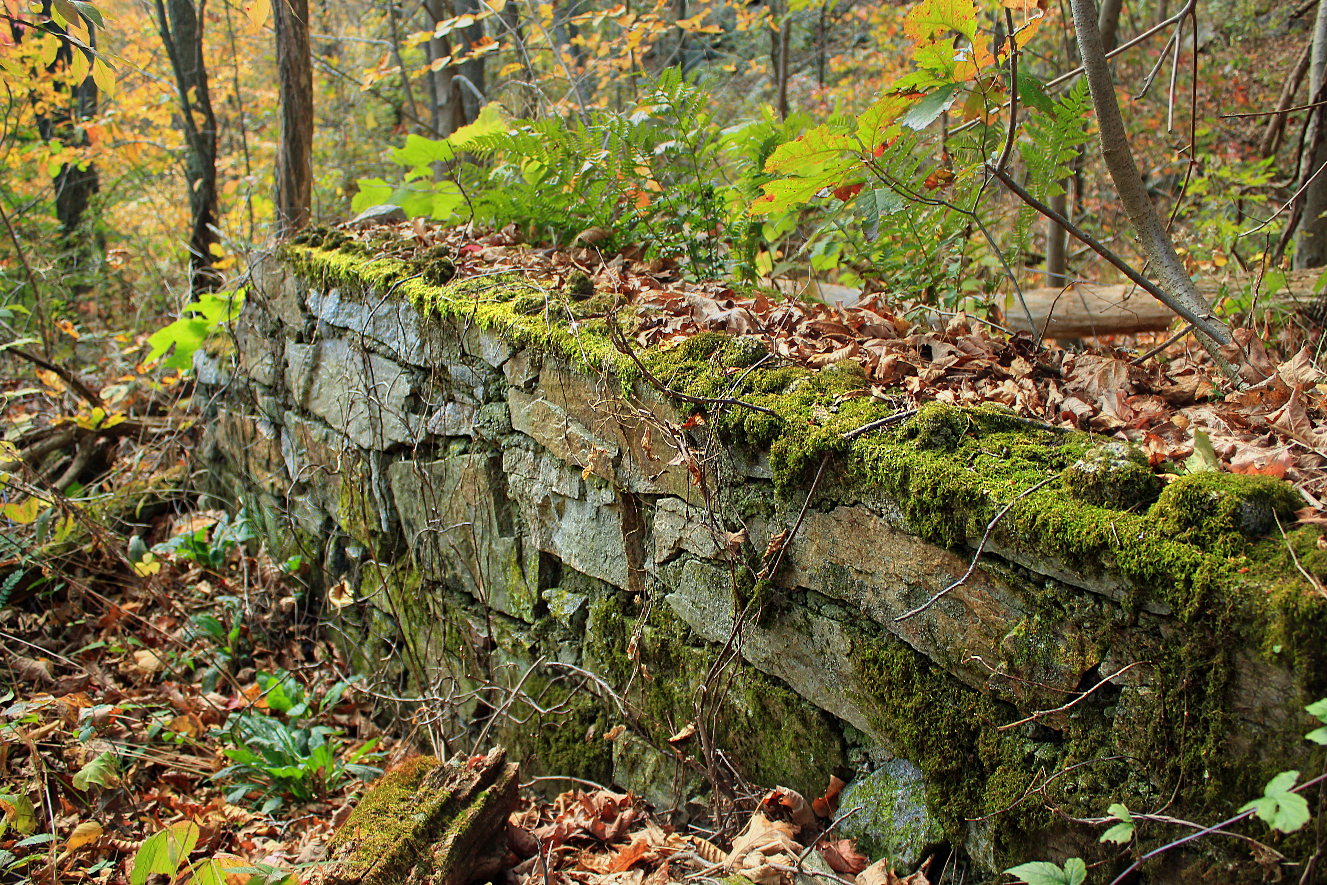 Ruins along the Appalachian Trail at Totts Gap, Northampton County, within the Delaware Water Gap National Recreation Area.